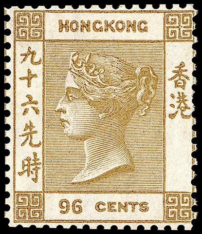 1862 Hong Kong stamp in denomination of 96 cents